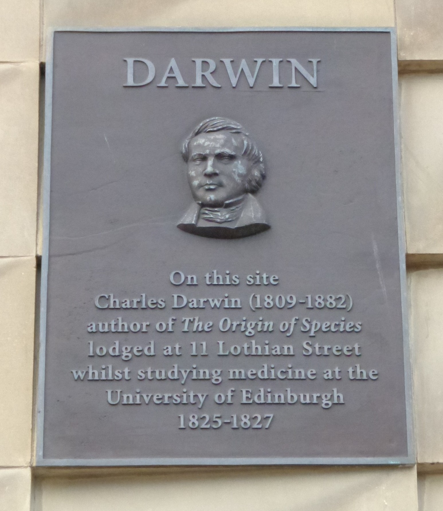 Plaque on the National Museum of Scotland extension behind Old College indicating where Darwin lived while studying medicine at the University of Edinburgh